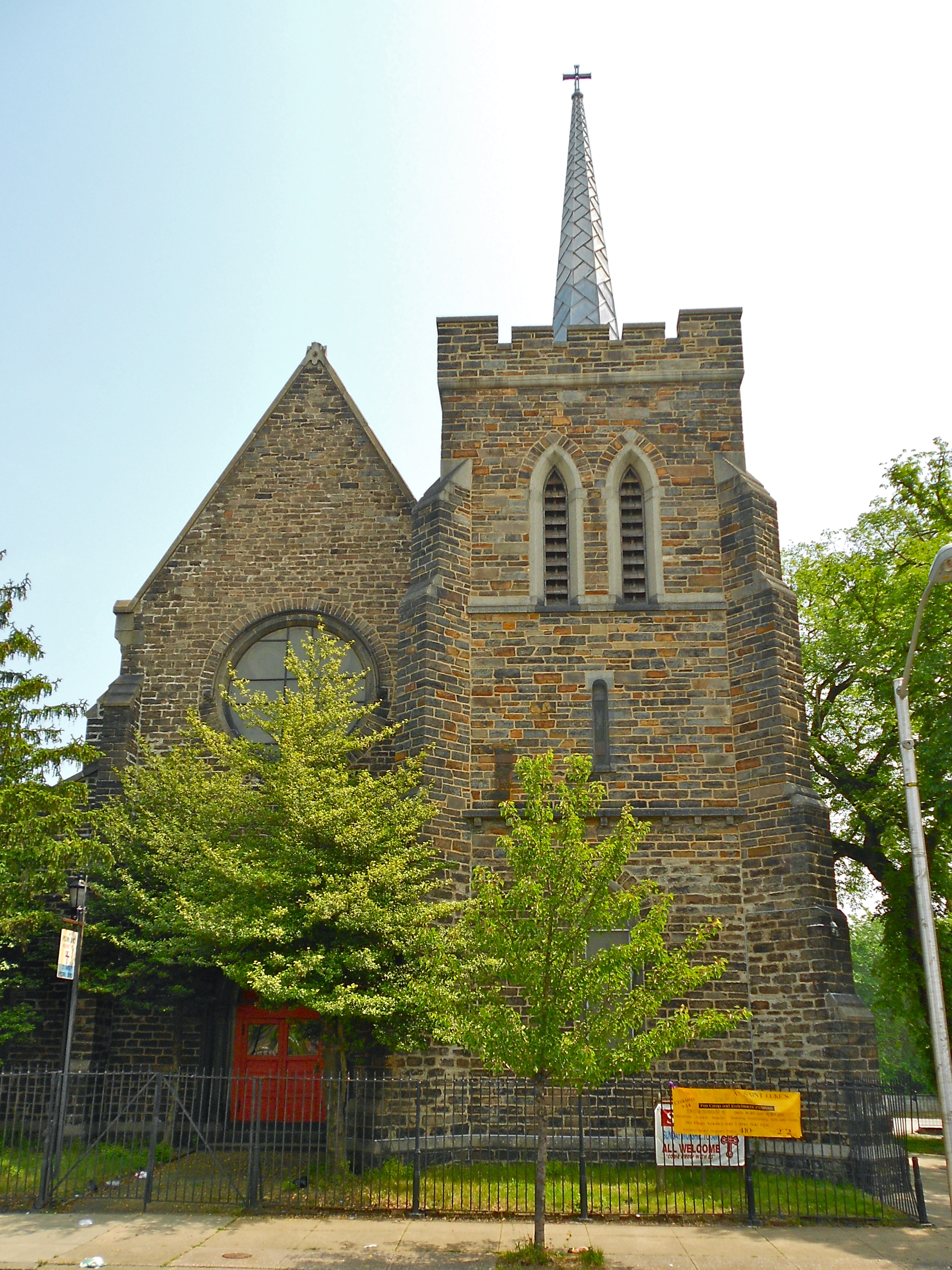 St. Lukes Episcopal Church in Baltimore